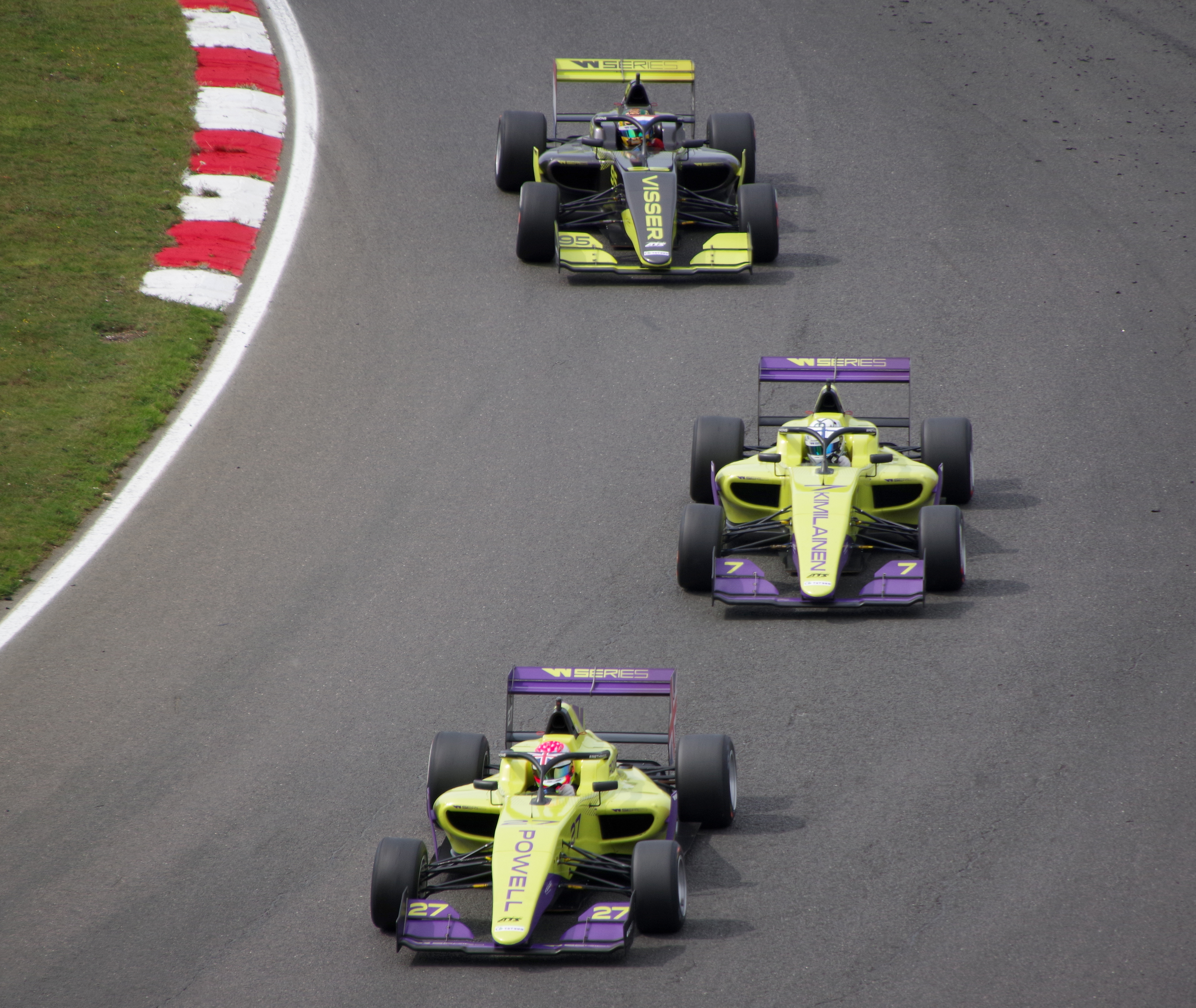 W Series racing at Brands Hatch - Powell, Kimilainen and Visser pass through Paddock Hill Bend.